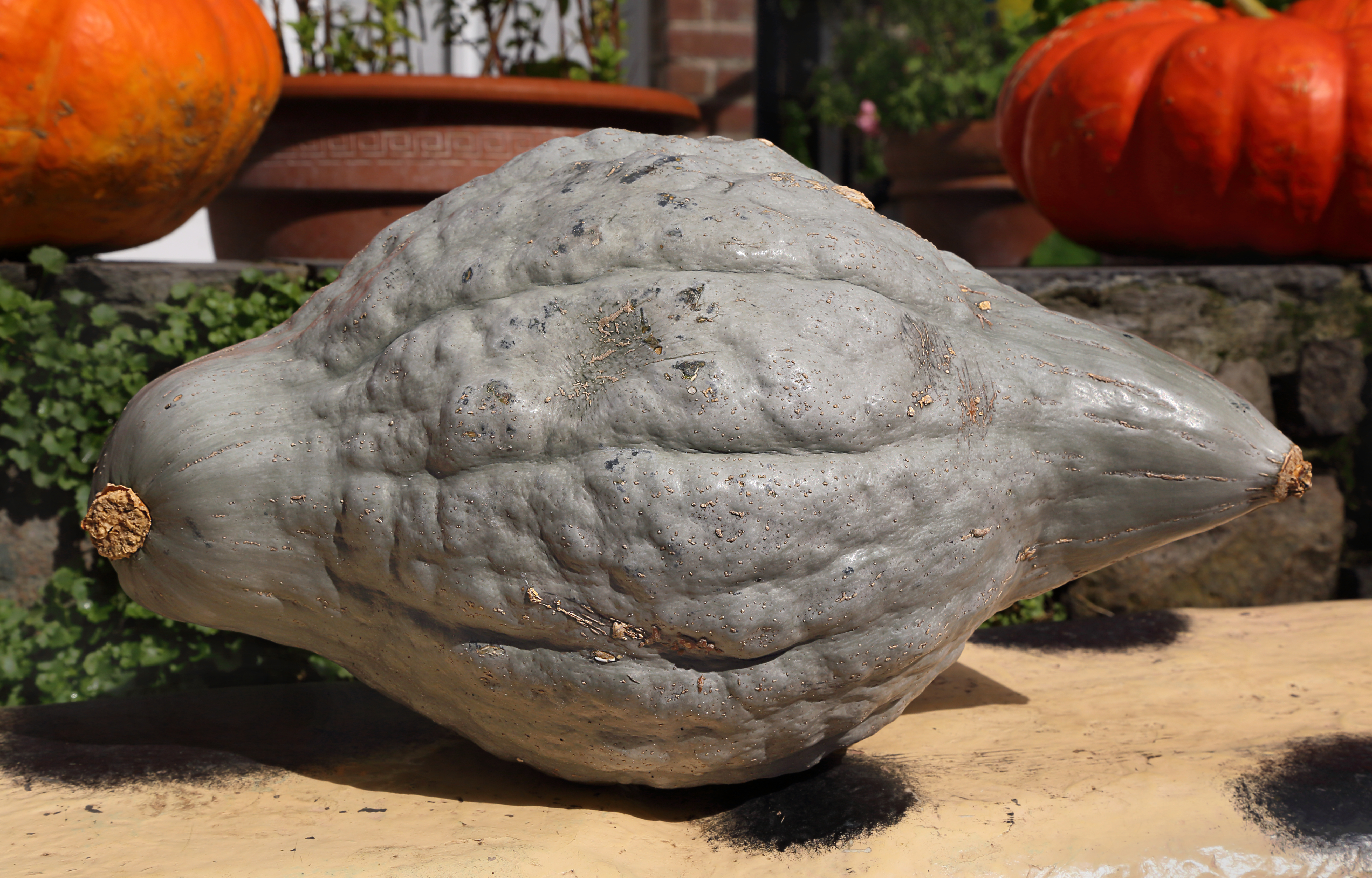 Blue Hubbard squash, picture taken in Belgium.